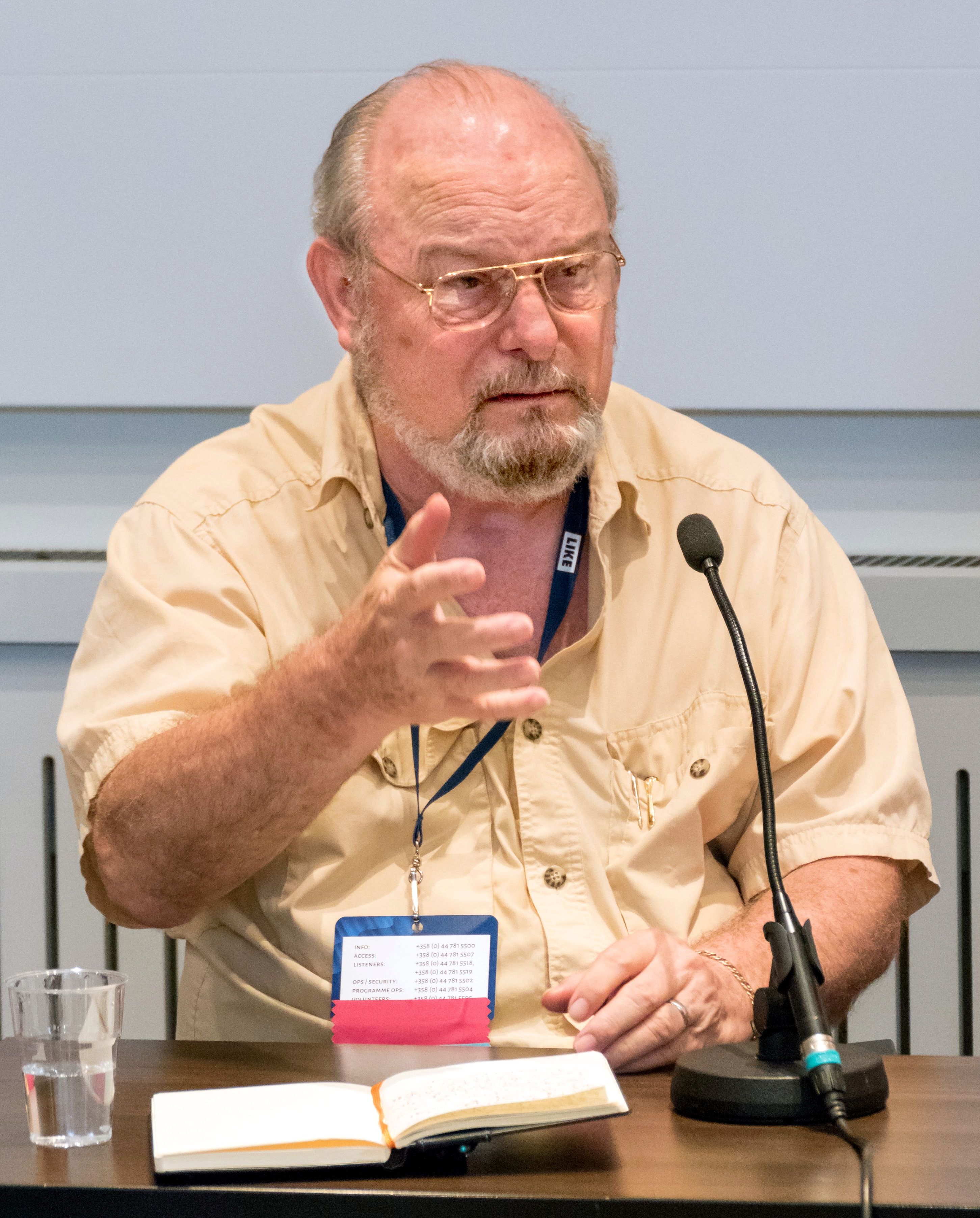 World Science Fiction Convention in Helsinki, 2017. It's More Complicated Than That. Joe Haldeman